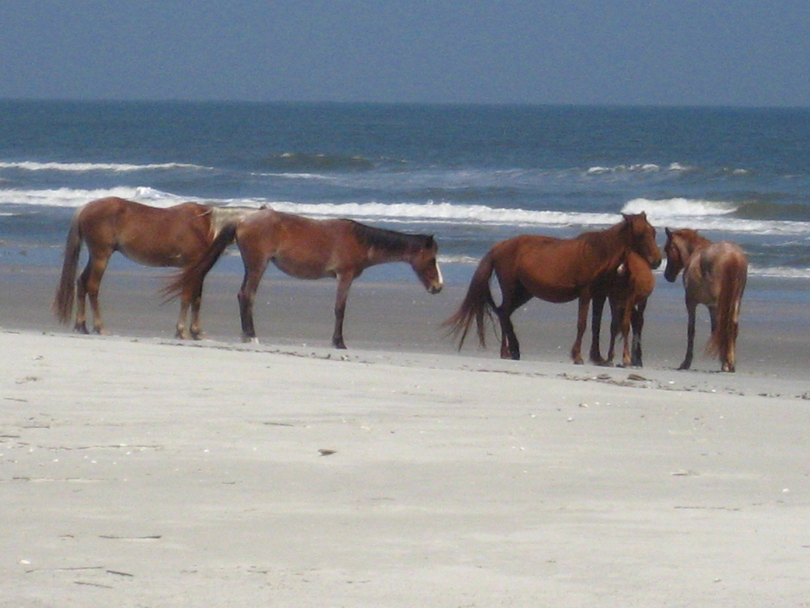 Cumberland Island horses on a beach of Cumberland Island, Georgia. Cumberland Island National Seashore is home to many wild (feral) horses. "As we were packing up to leave the beach a few hours later, we spotted this small herd of horses visiting the beach. I guess they wanted to get away from the bugs in the marsh, too. They stood here for quite some time just twitching their tails."